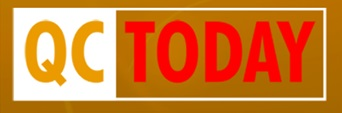 Quad Cities Today logo.